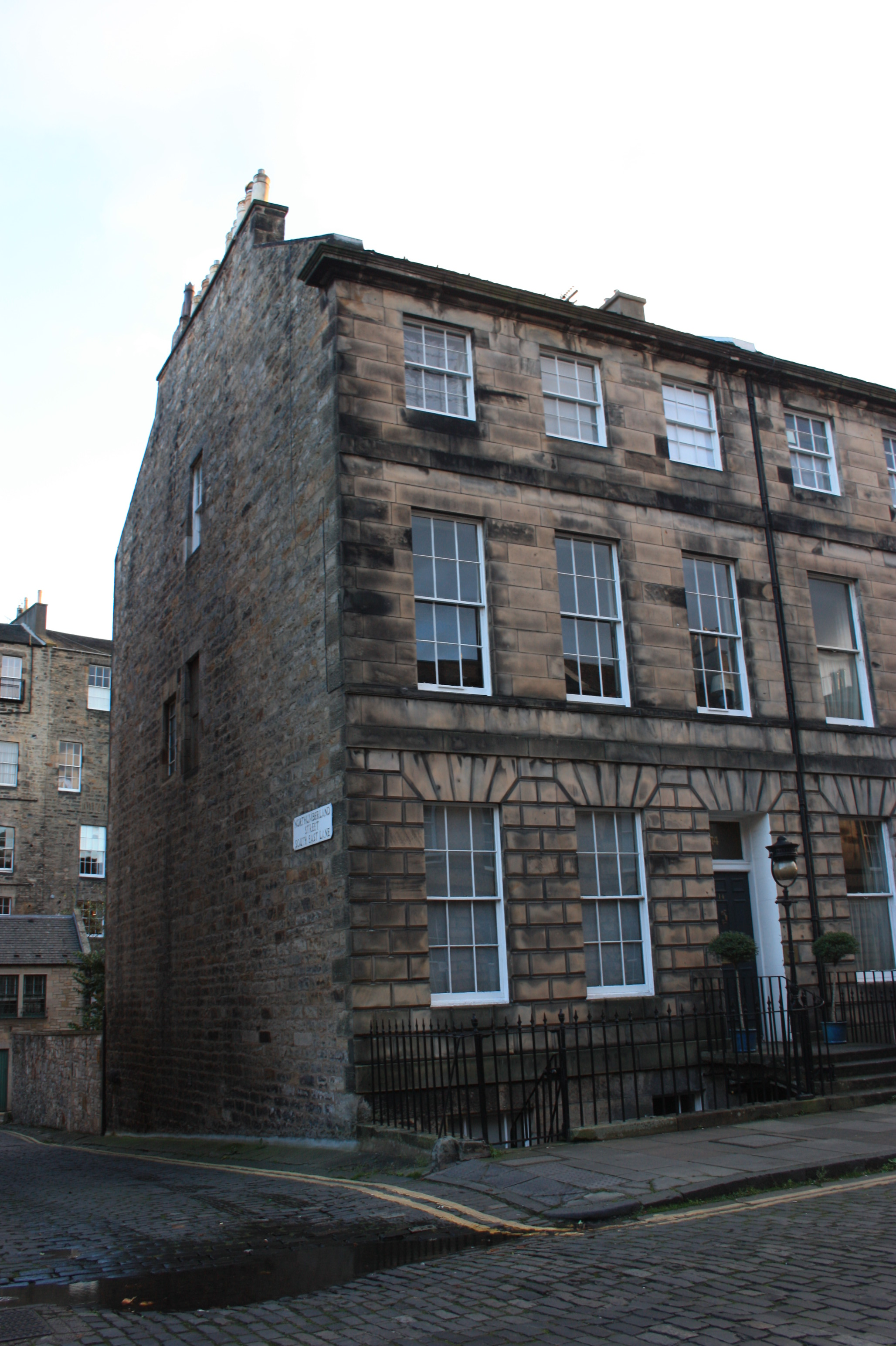 14 Northumberland Street, Edinburgh